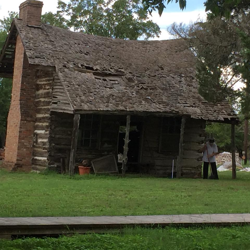 The Old Cavitt Log Cabin in Wheelock TX in Robertson County. It is a Texas Landmrk